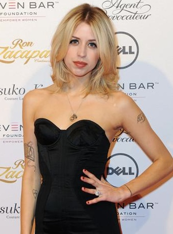 Cropped from original here